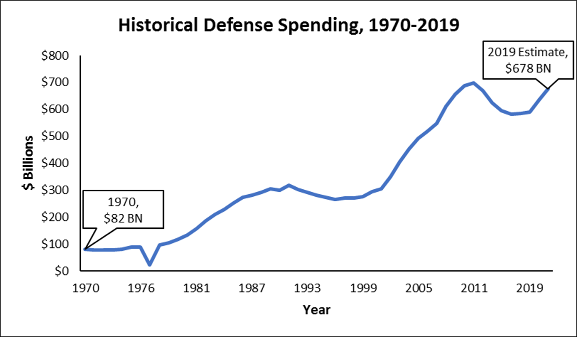 This picture demonstrates the defense spending trends of the United States of the last few decades.